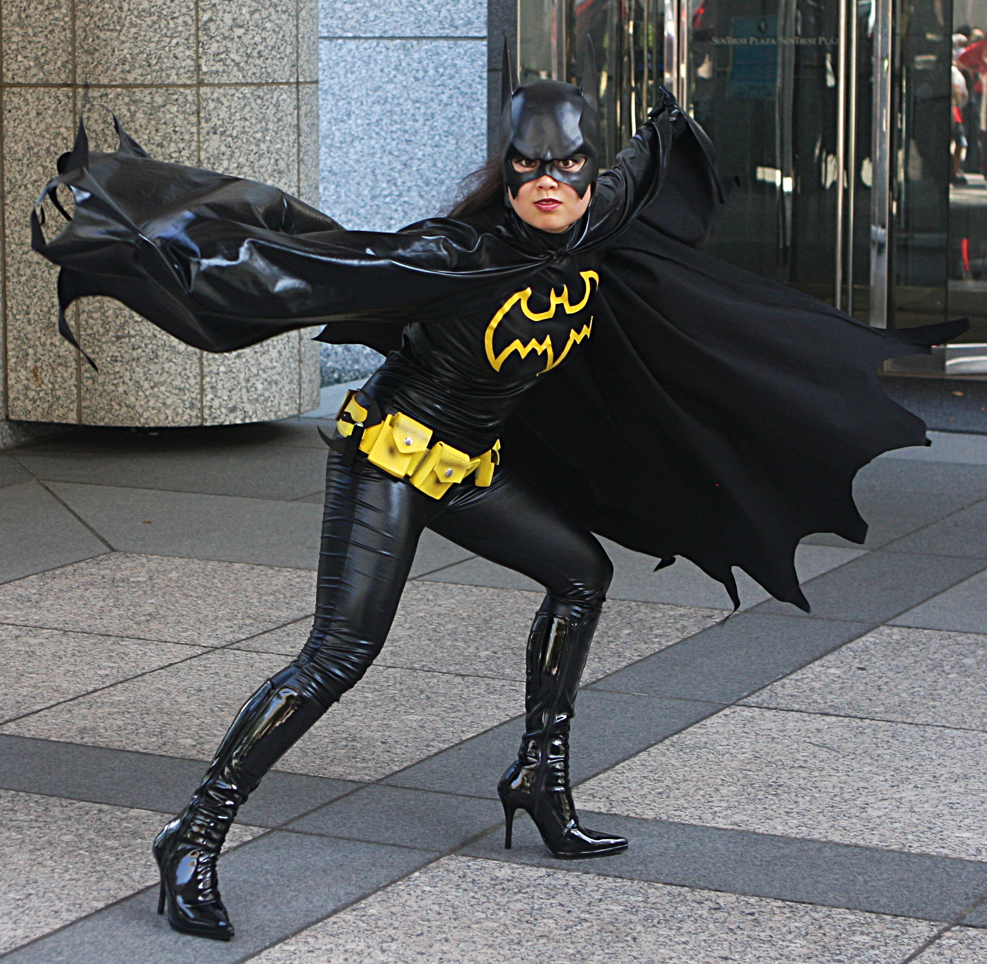 Batgirl, cosplay, Atlanta 2009 Camera: Canon EOS 40D License on Flickr (2011-02-14): CC-BY-2.0 Flickr tags: Dragon, Con, 2009, D*Con, DC, Hero, Villian, Batgirl